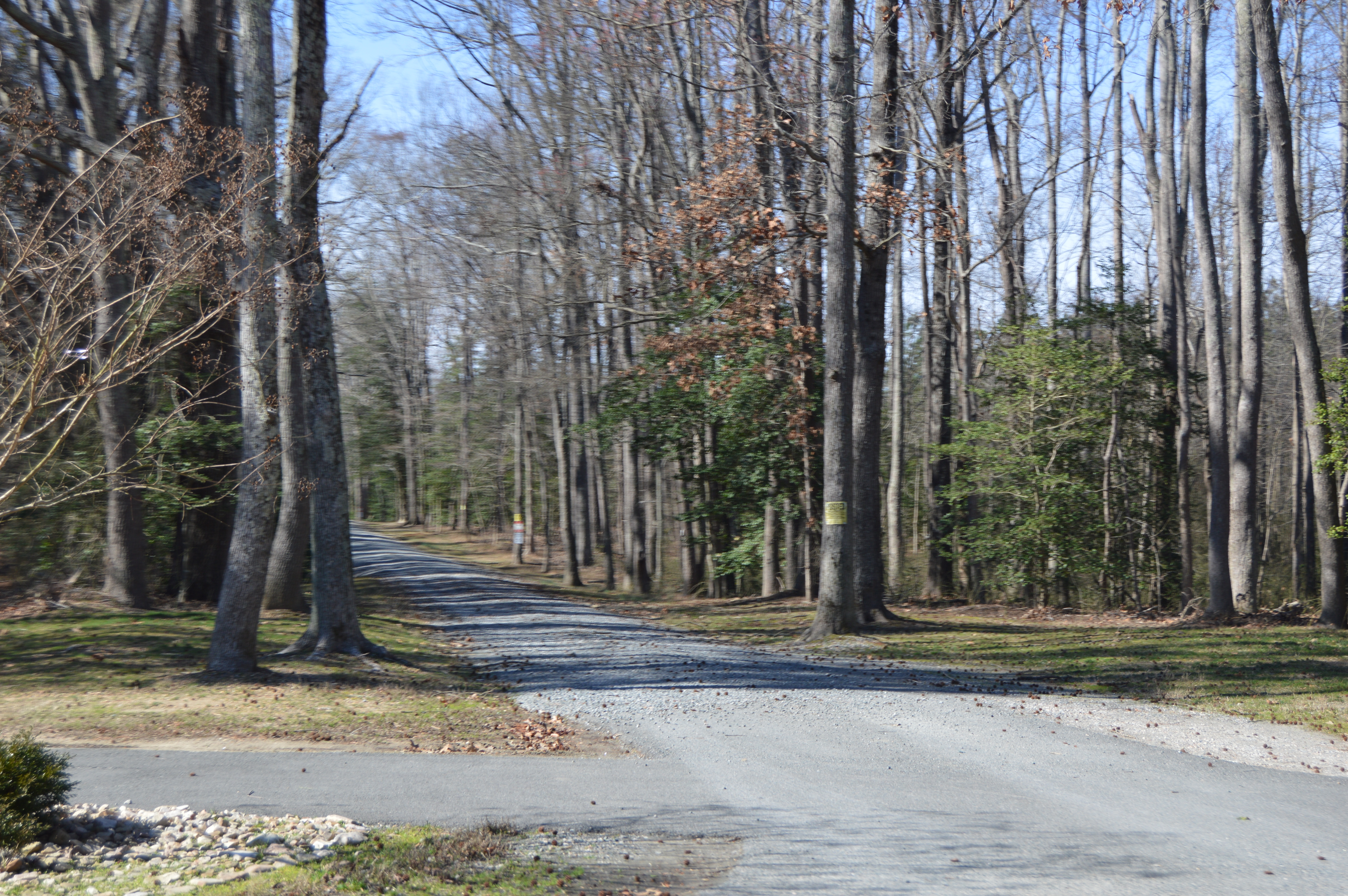 Driveway to Hardens, located off State Route 5 in far western Charles City County, Virginia, United States. The estate is listed on the National Register of Historic Places.